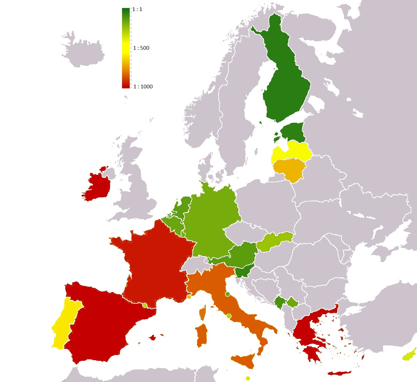 Map of the Eurozone countries according to their hit ratio on EuroBillTracker, as of 19th June 2011.